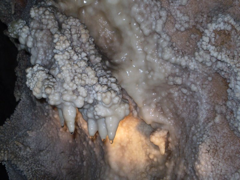 Speleothem in Rákóczi No. 1. Cave